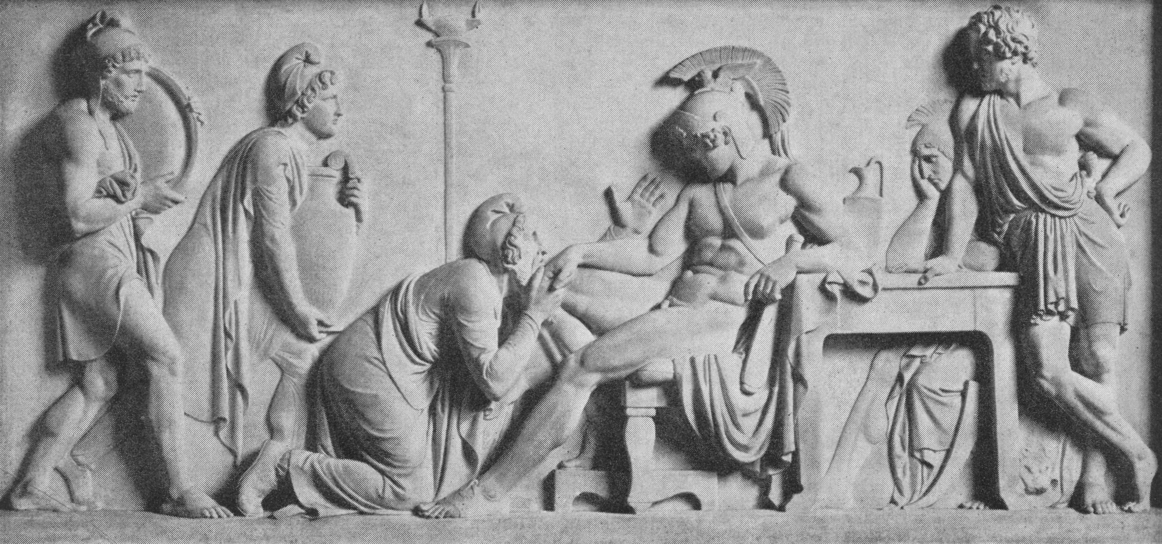 Priamos beseaches Achilles about Hector's corps. Marble.